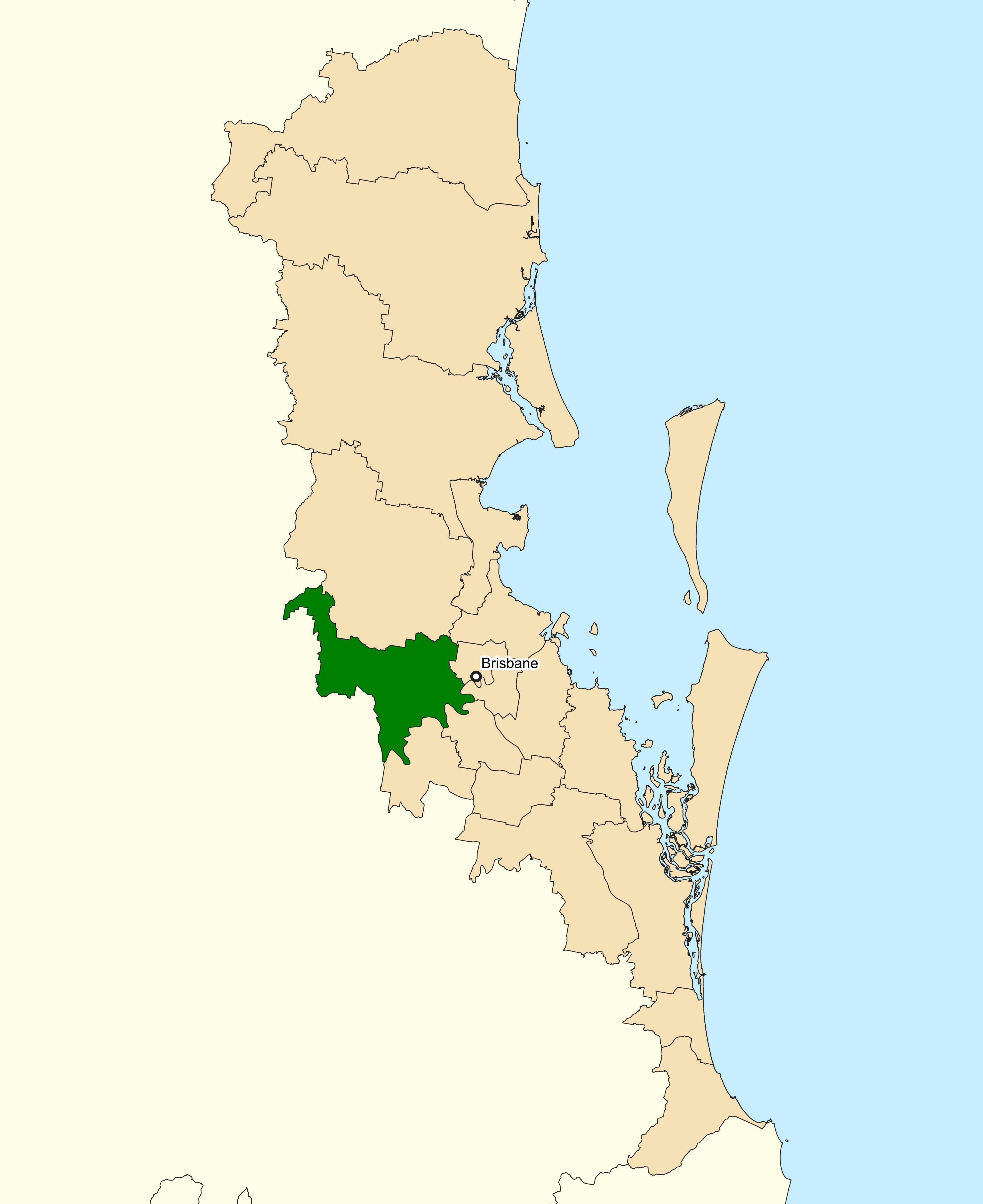 Location of the Australian federal electoral division of Ryan (dark green) in Greater Brisbane, Queensland as of the 2019 Australian federal election. Incorporates or developed using Administrative Boundaries ©PSMA Australia Limited licensed by the Commonwealth of Australia under Creative Commons Attribution 4.0 International licence (CC BY 4.0).